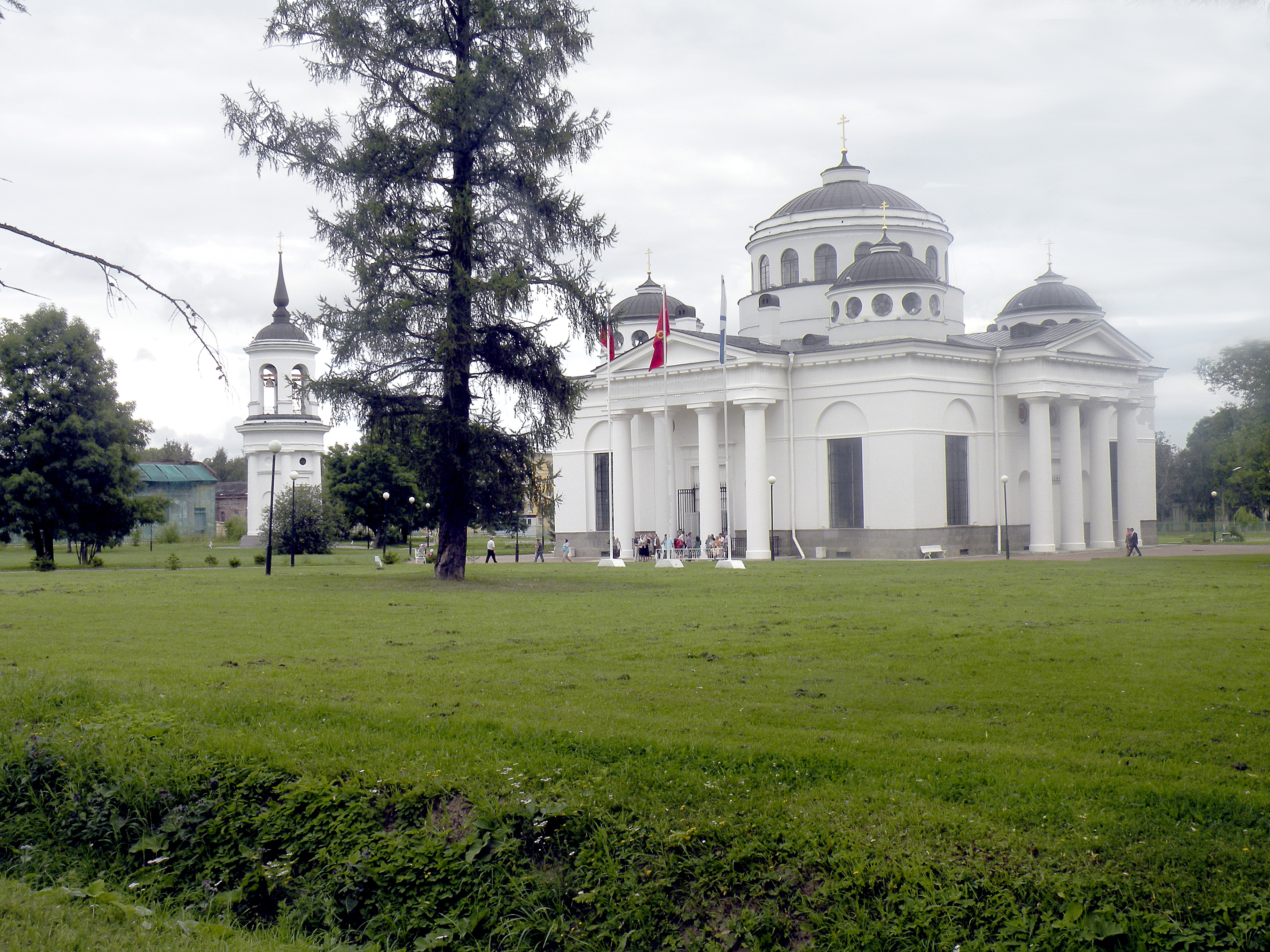 The Saint Sophia (Ascension) Cathedral in Tsarskoye Selo, Pushkin, Russia.